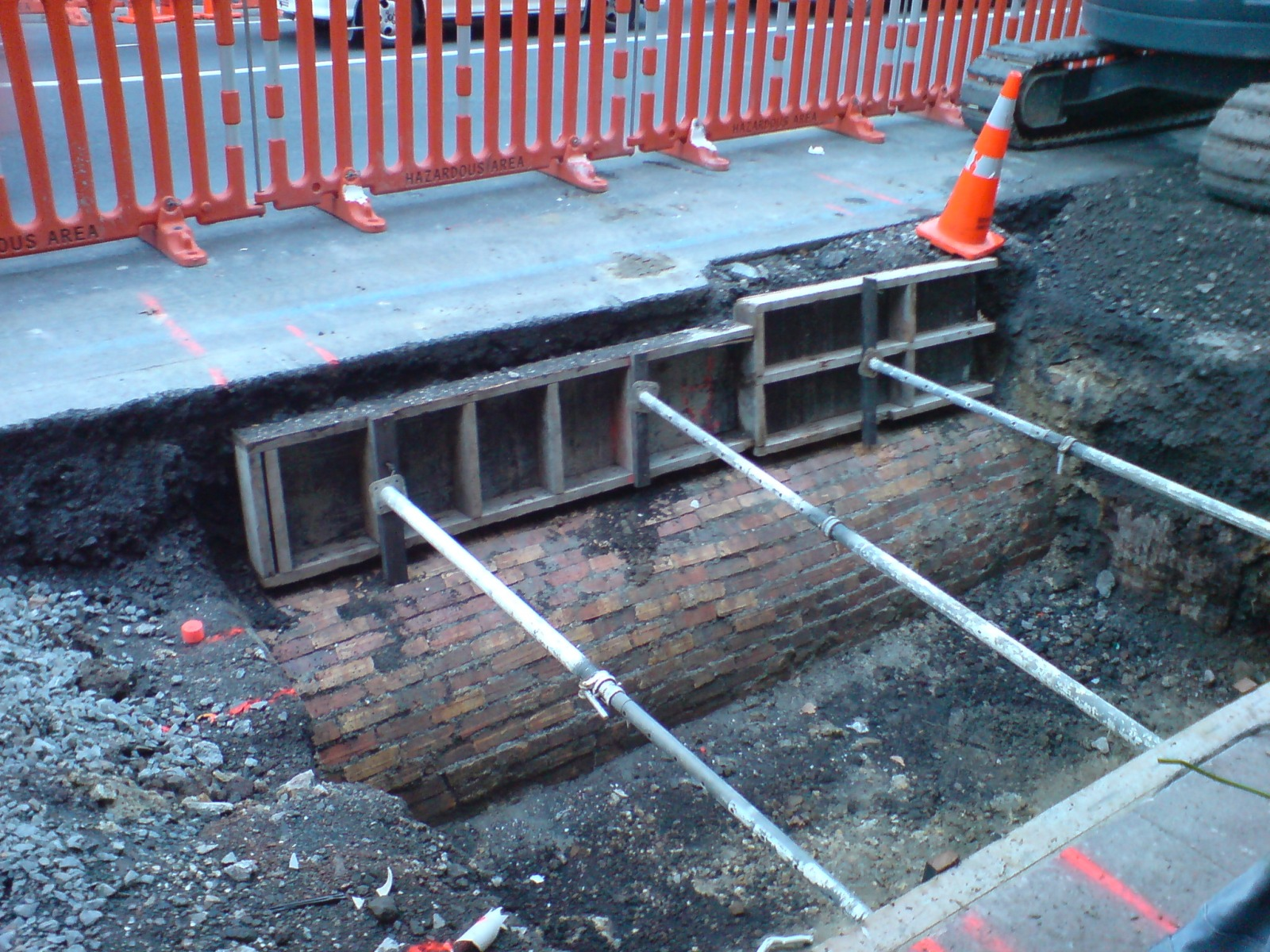 A brick sewer in Queen Street, Auckland City, New Zealand. This may potentially be the 'Ligar Canal', formerly the Waihorotiu Stream, that was covered over in the middle of the 18th century, and which originally defined the run of Queen Street.